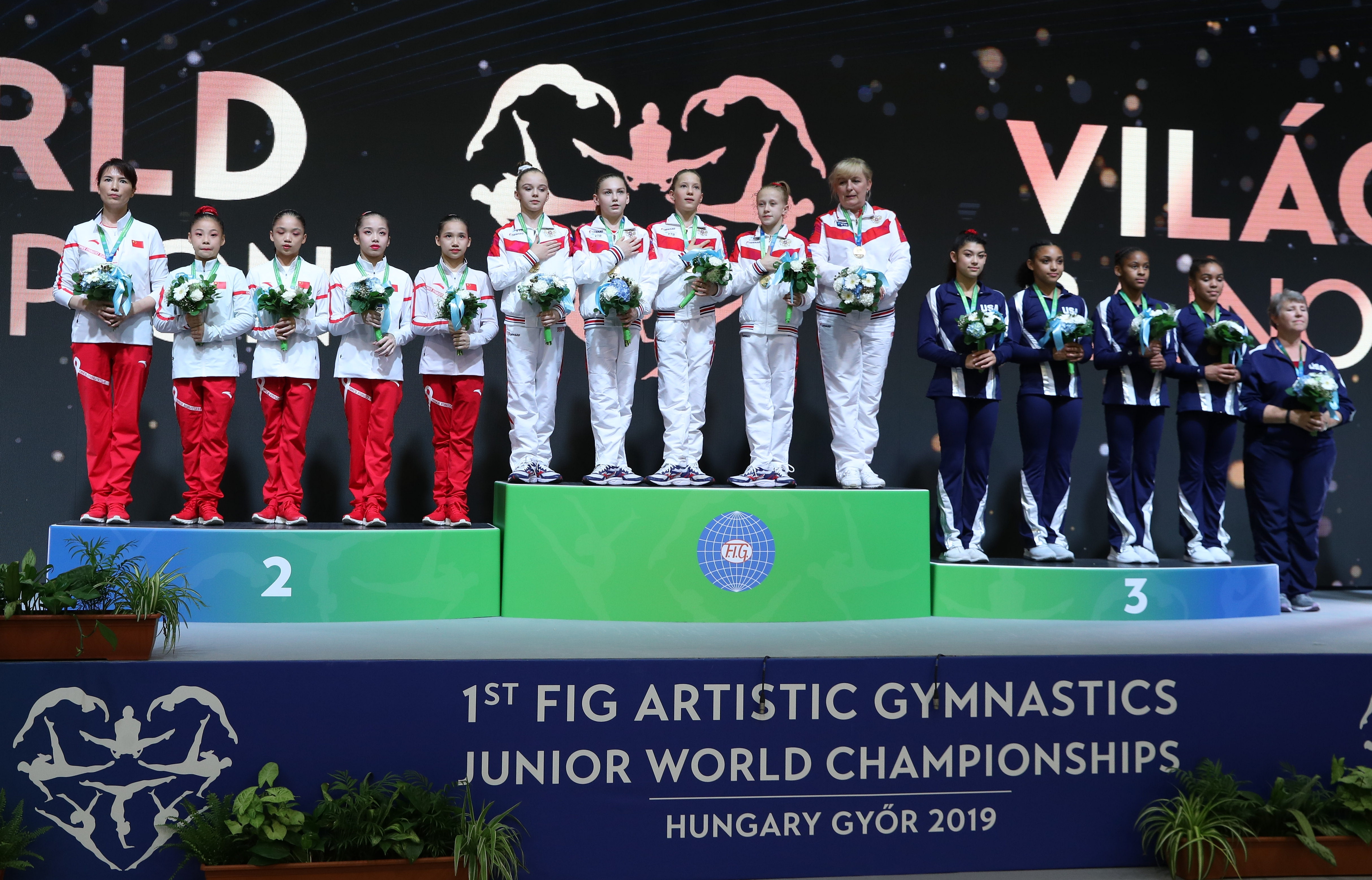 Victory ceremony for the girls' team final at the 1st FIG Artistic Gymnastics Junior World Championships on 28 June 2019 in Győr, Hungary. Depicted: Chenchen Guan. Elena Gerasimova. Iana Vorona. Kayla DiCello. Konnor McClain. Ran Wu. Skye Blakely. Sydney Barros. Viktoriia Listunova. Vladislava Urazova. Xiaoyuan Wei. Yushan Ou.